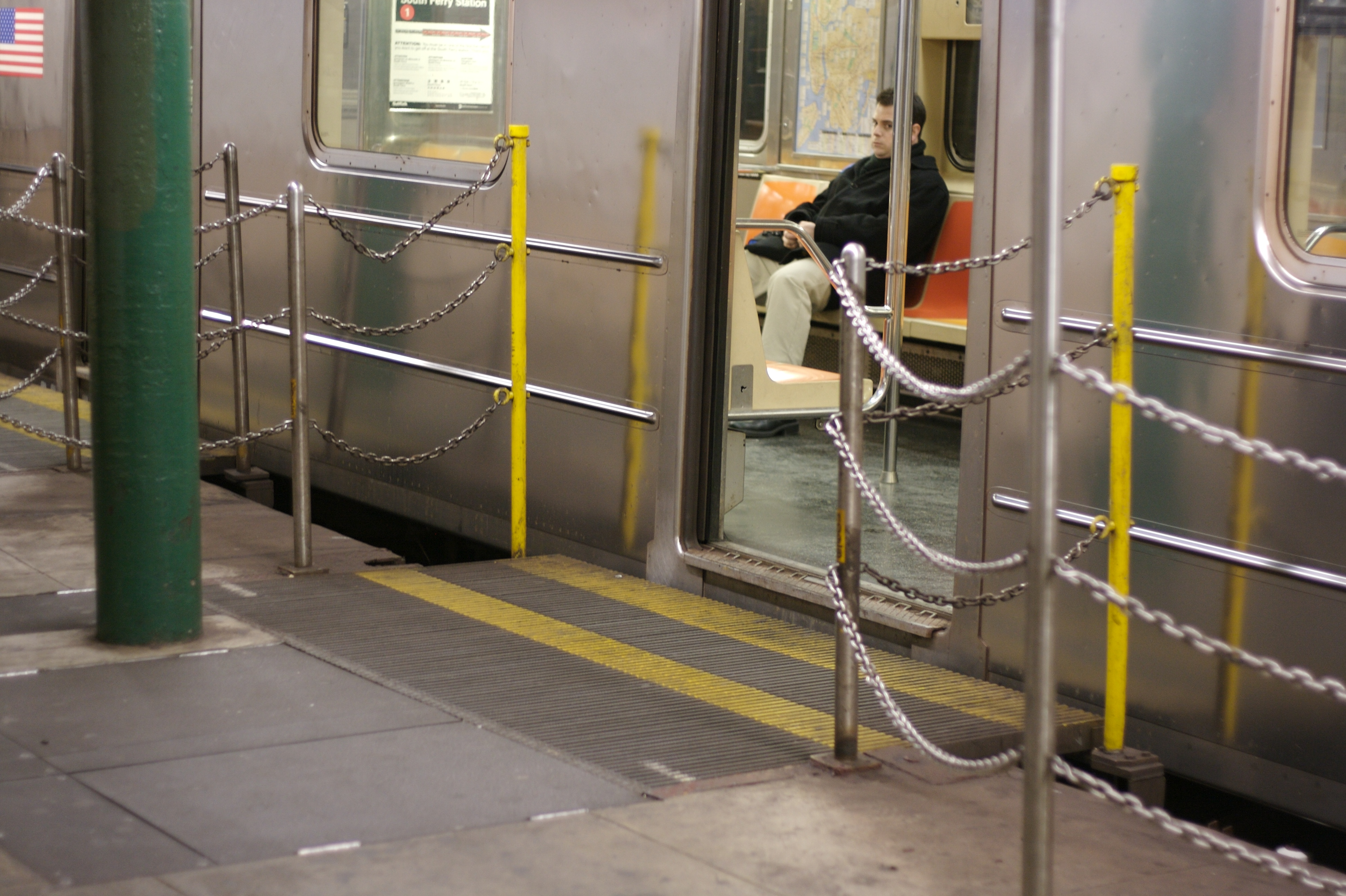 A gap filler at South Ferry station on the IRT Broadway–Seventh Avenue Line of the New York City Subway.